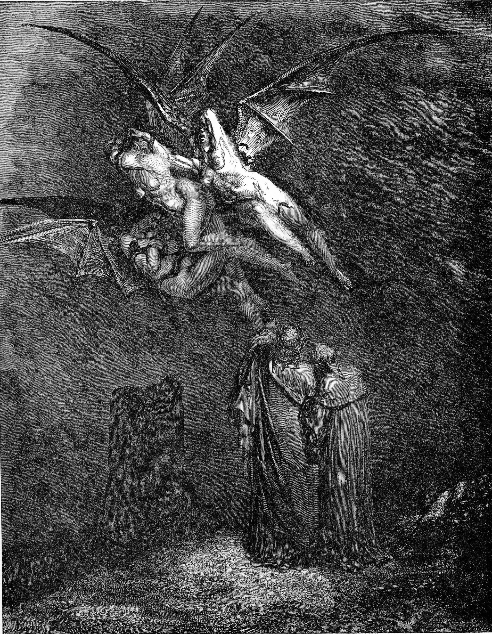 High resolution scan of engraving by Gustave Doré illustrating Canto IX of Divine Comedy, Inferno, by Dante Alighieri. Caption: Megaera, Tisipone, and Alecto